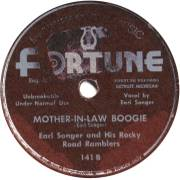 Mother-In-Law Boogie by Earl & Joyce Songer with the Rocky Road Ramblers, Fortune Records ca. 1951.